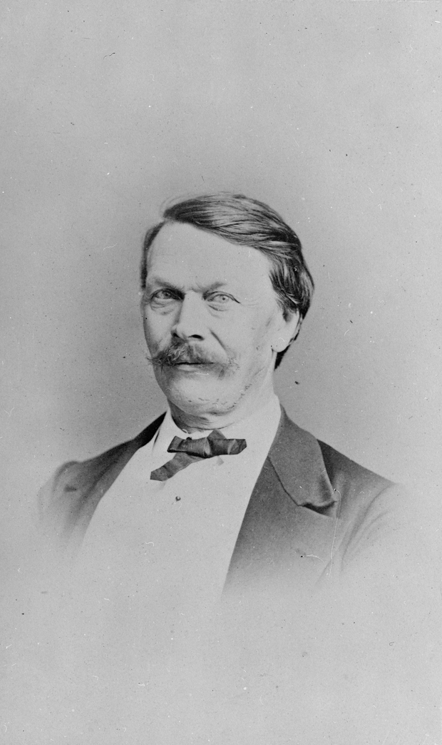 Depicted person: Johan Jacob Bennetter – Norwegian painter